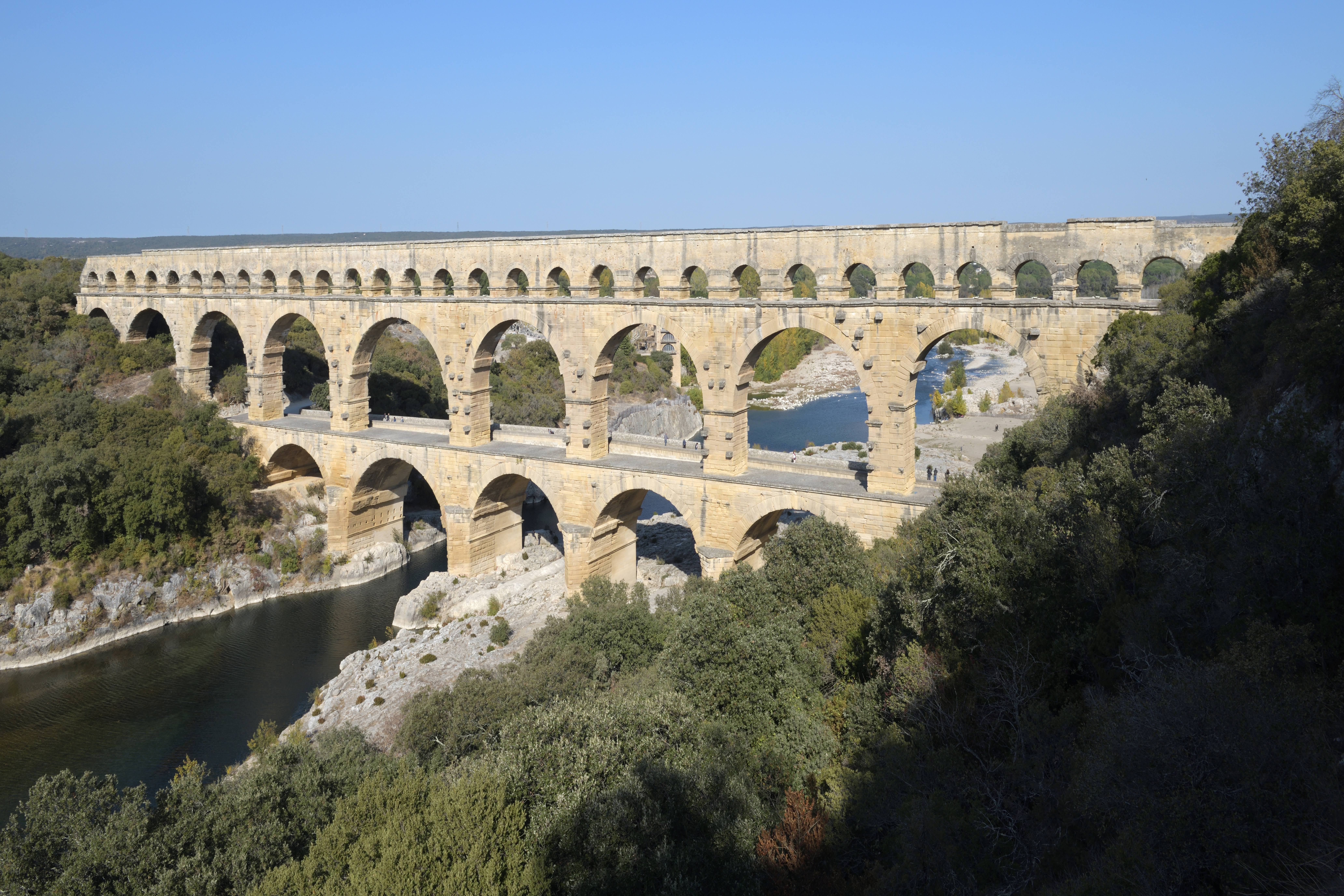 The roman aqueduct bridge Pont du Gard in France.